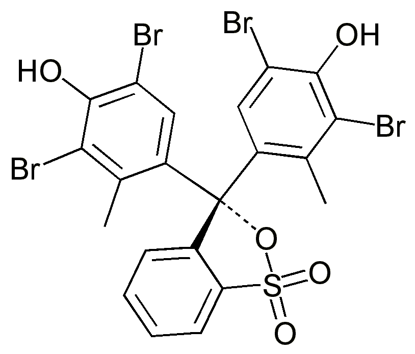 Chemical structure of Bromocresol green (free acid form).